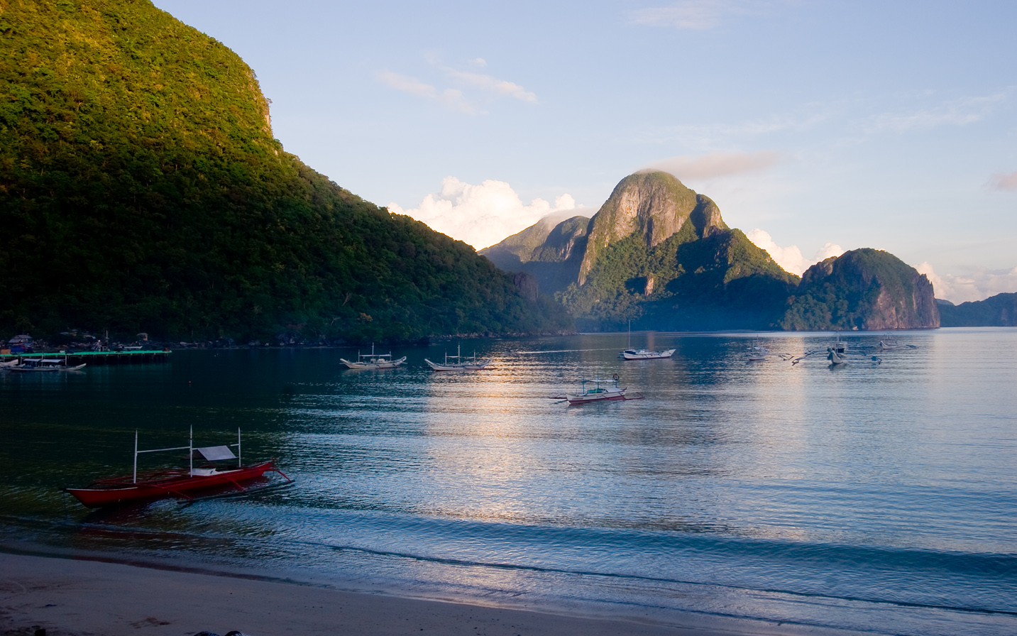 Taken from near El Nido town center, facing Cadlao Island.